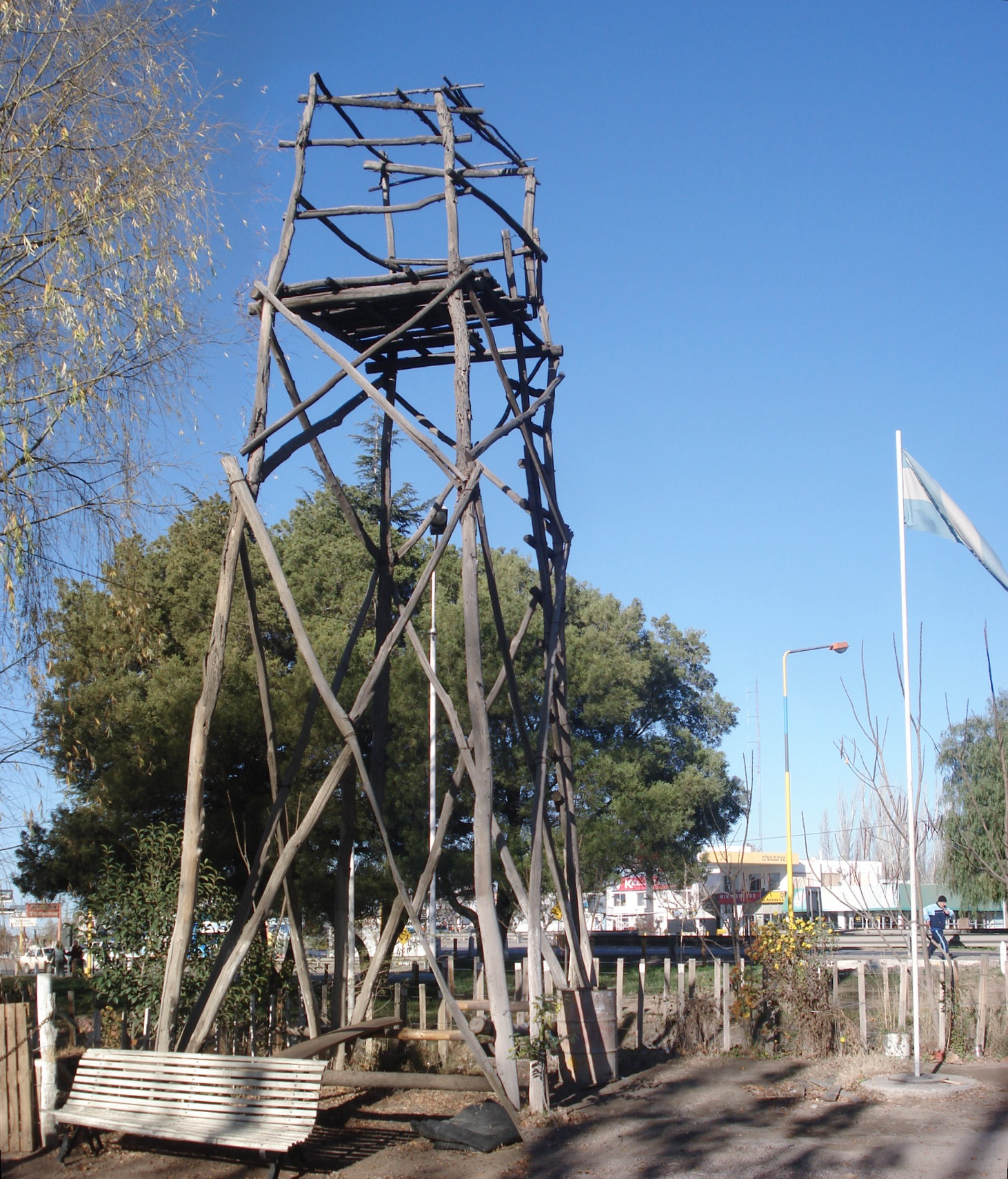 Model of watch tower used in the conquest of the desert in Argentina exposed in Cipolletti city, in Río Negro province, Argentina.